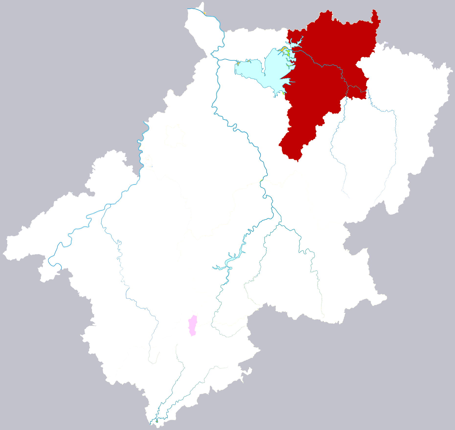 Location of Langxi county in Xuancheng city, China